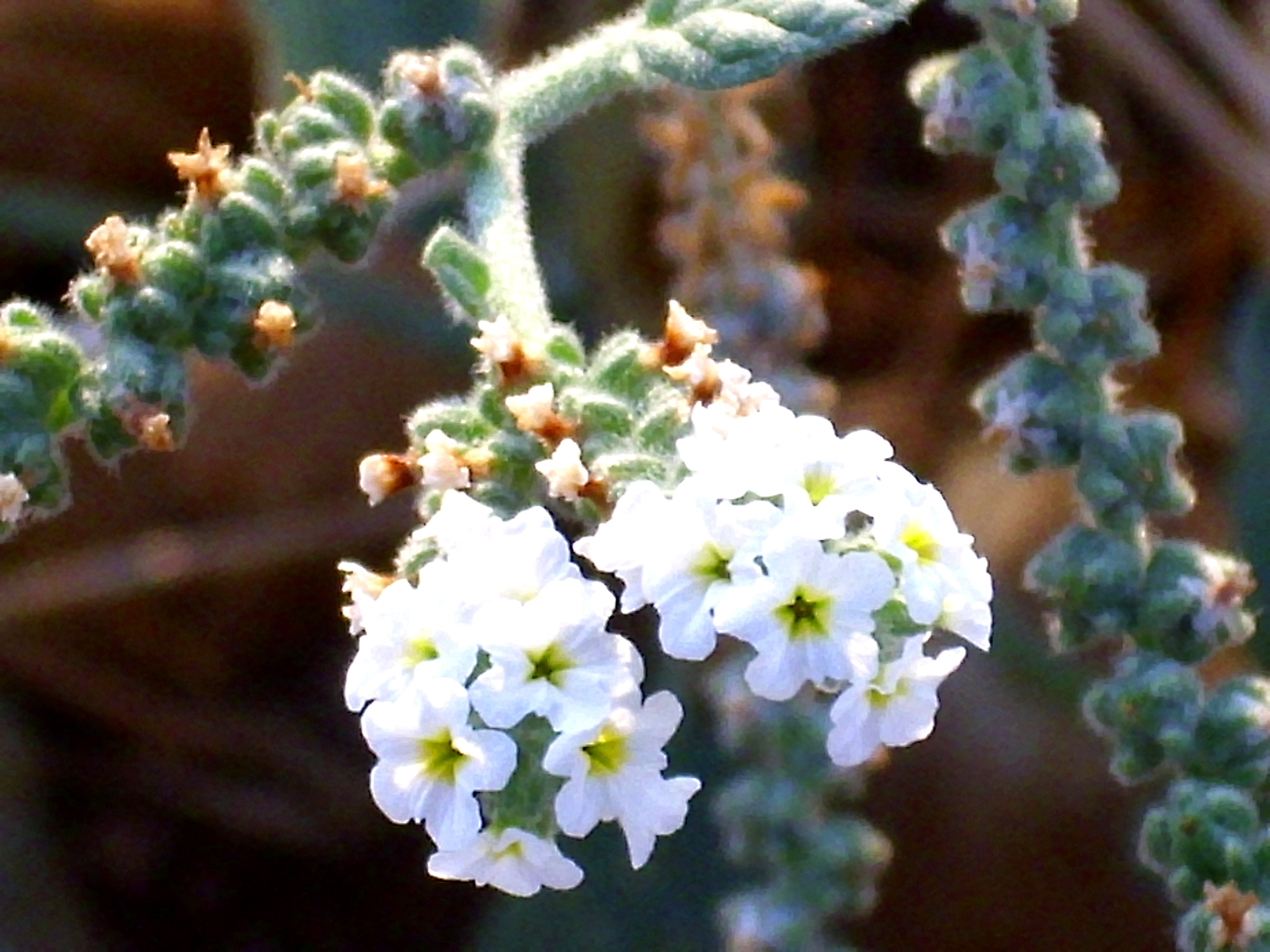 Heliotropium europaeum flowers close up, Dehesa Boyal de Puertollano, Spain